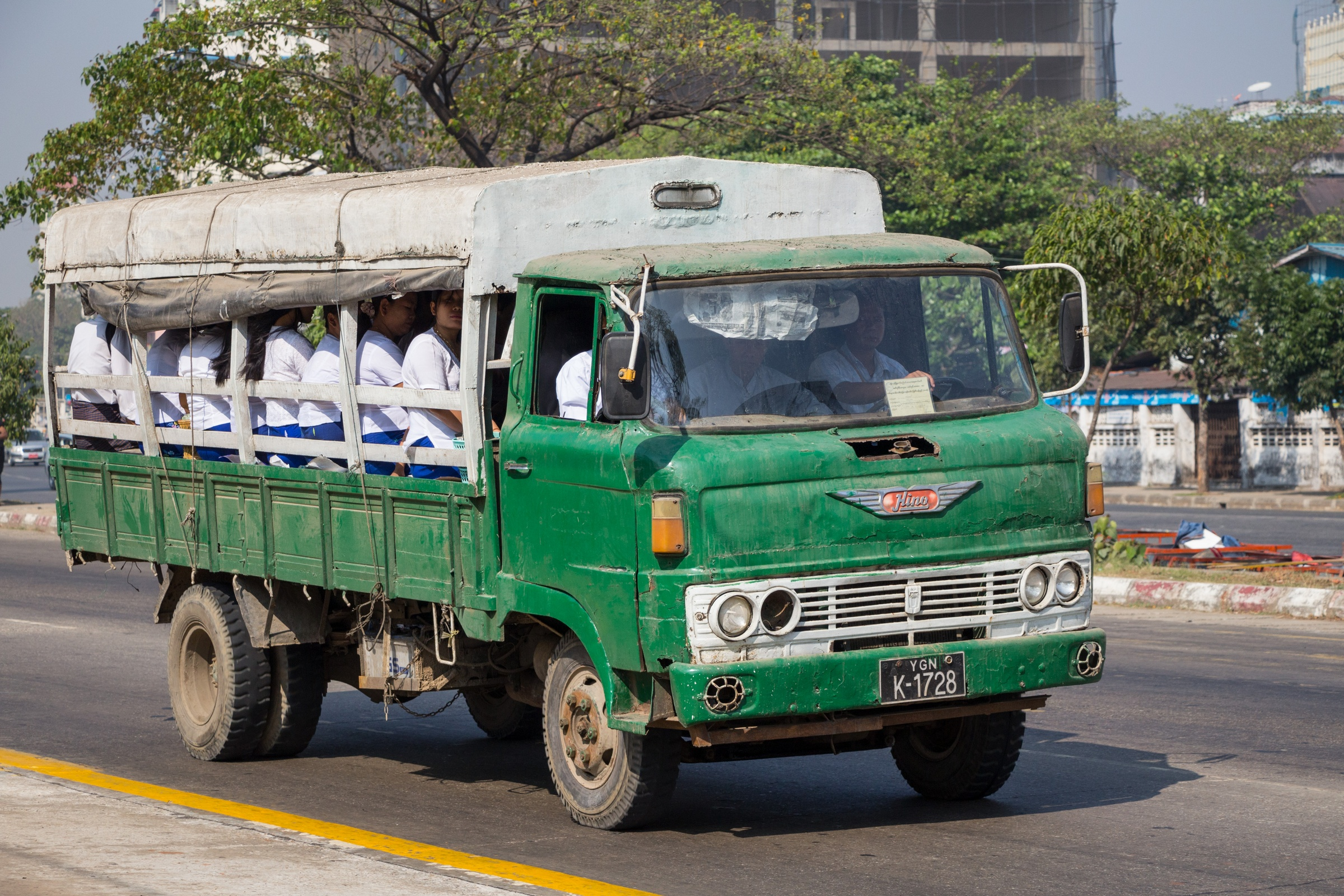 Hino truck in Yangon, Myanmar